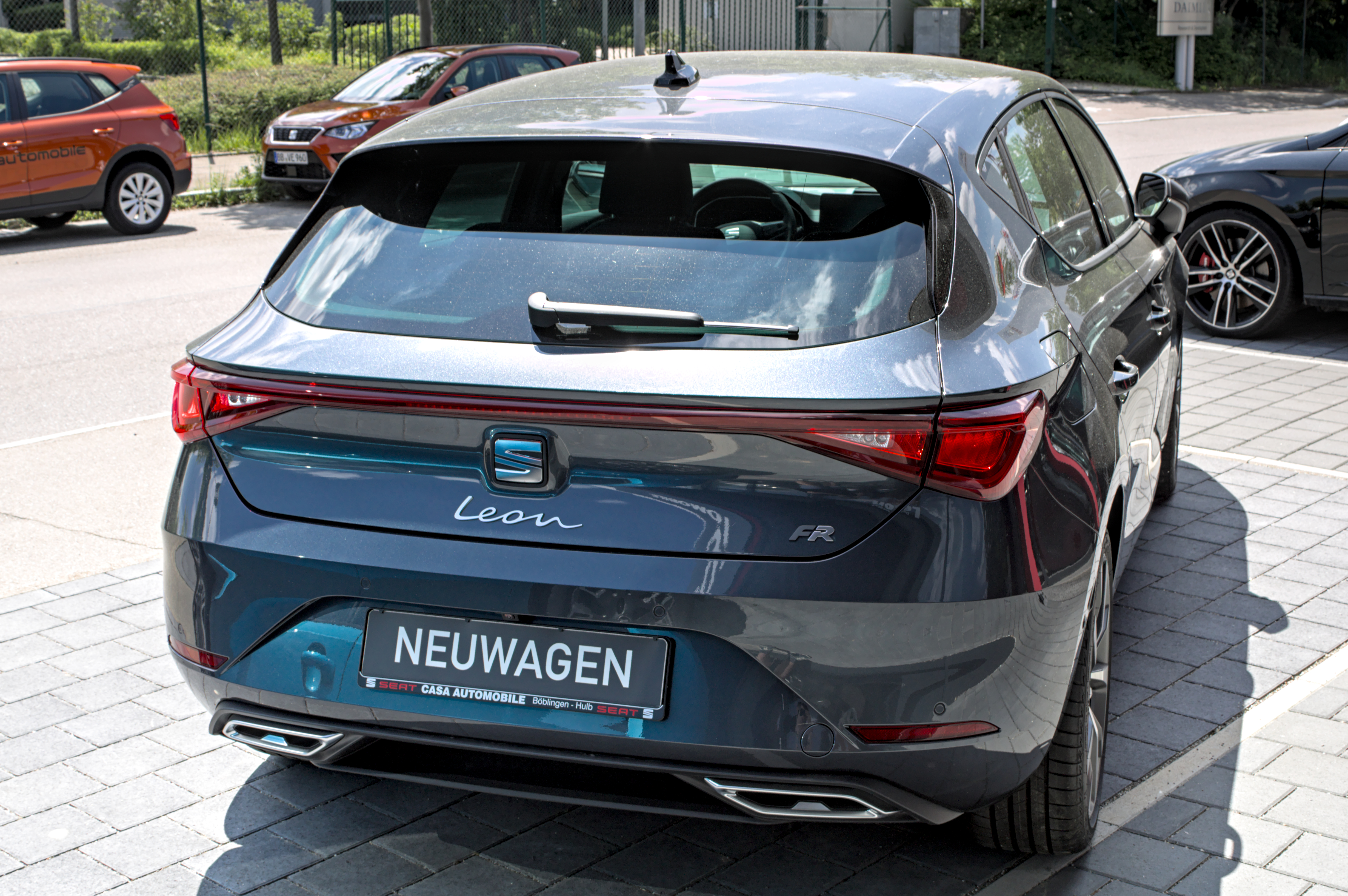 SEAT_Leon_Mk4 in Böblingen